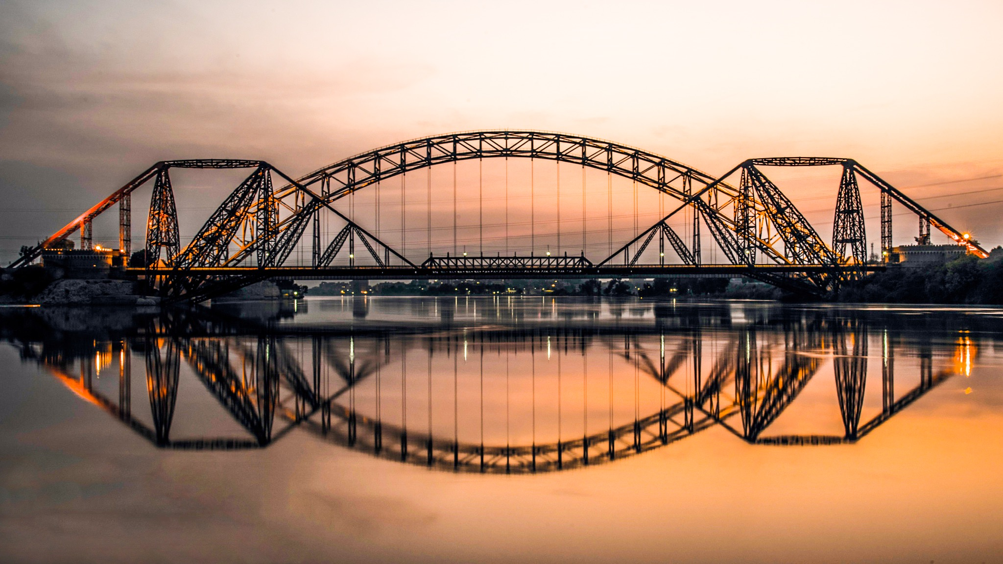 Landsdown Bridge This is a photo of a monument in Pakistan identified as the SD-55.5